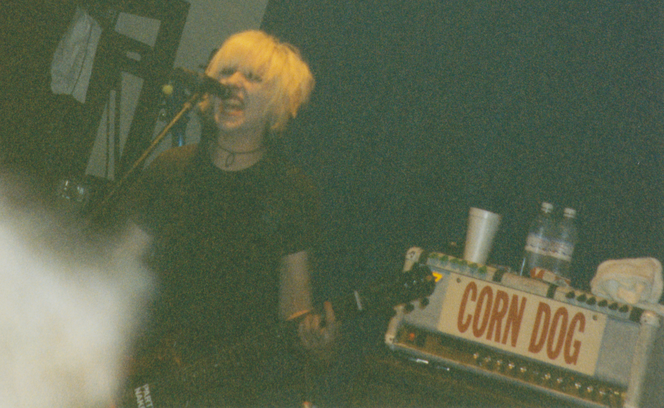 L7 at the Emerson Theatre in Indianapolis, IN circa 1997